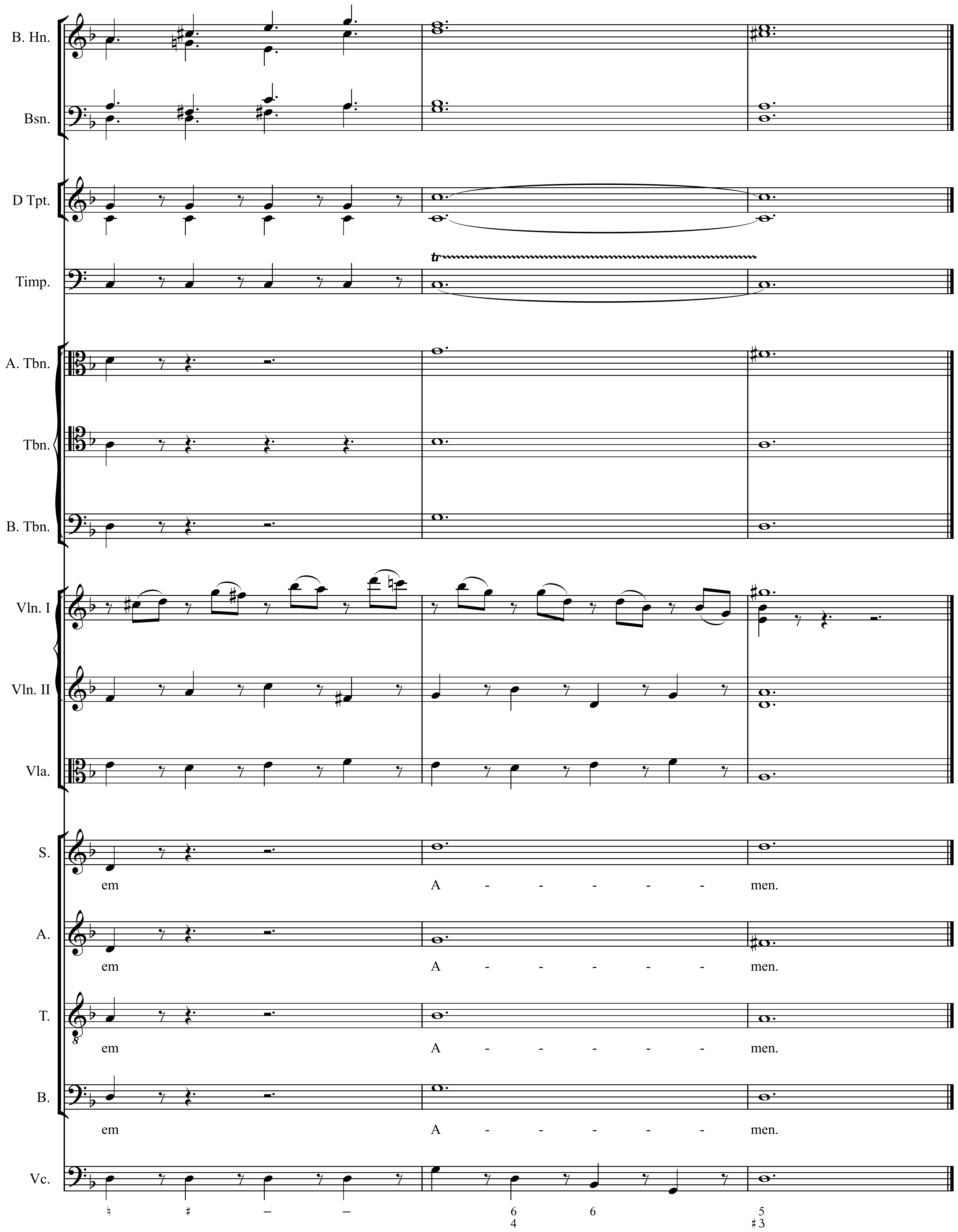 Full score of the "Lacrimosa" from Mozart's Requiem. For contrast with piano reductions.